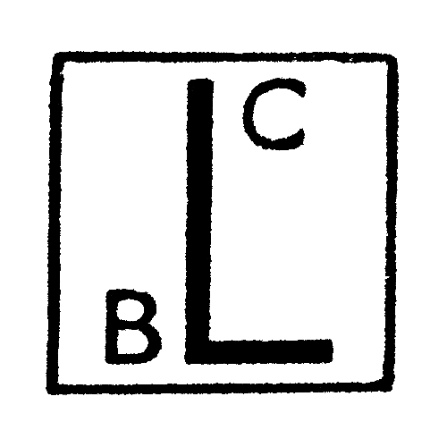 Logo of the Left Book Club (1936-48). Taken from the cover of the Left Book Club edition of "In Search of the Millennium", in File:Left Book Club editions.jpg